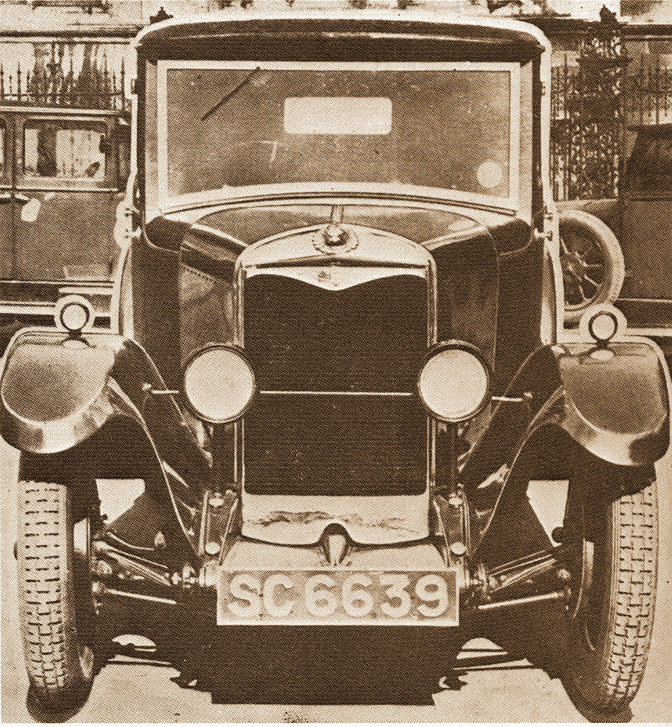 1930 Little Scotsman